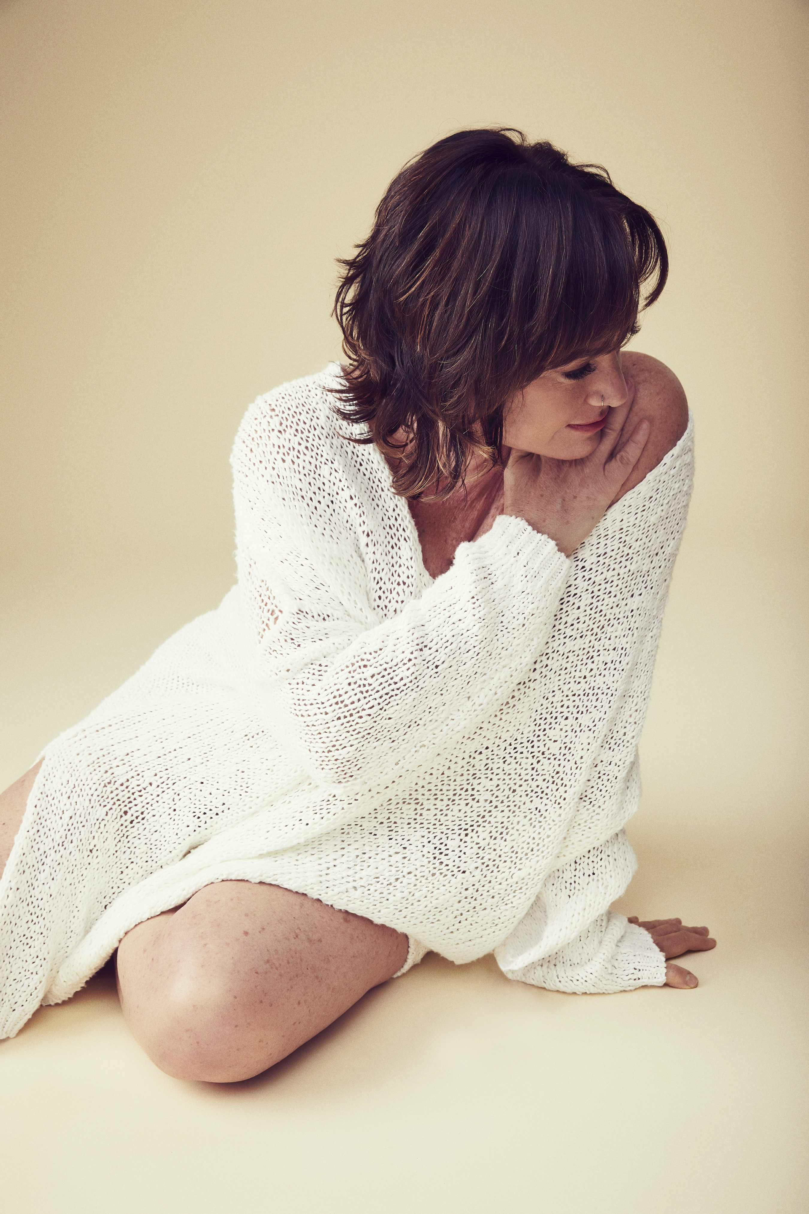 Claudia Brant 2018